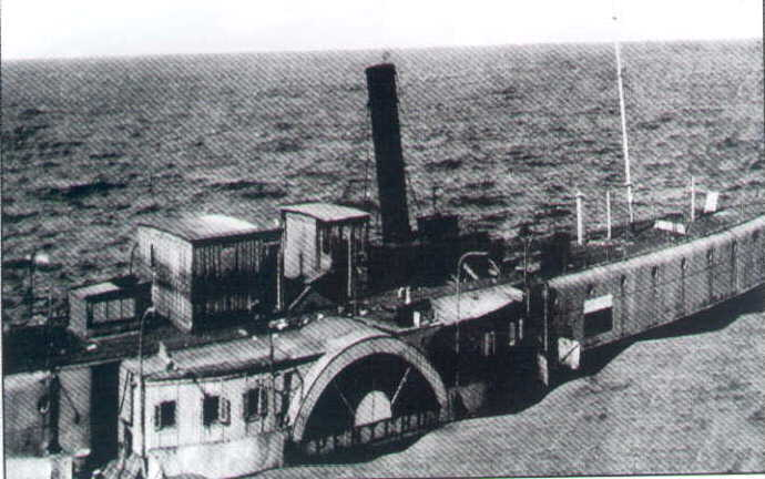 Few hours before sinking